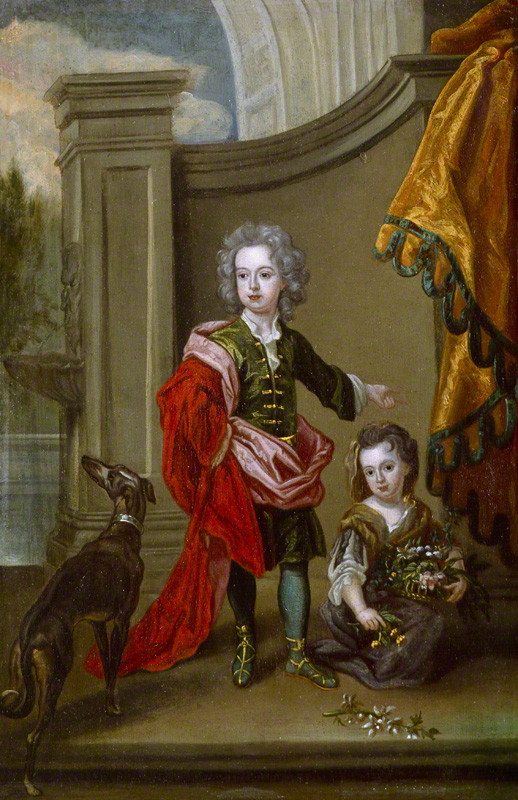 Richard Boyle, 3rd Earl of Burlington (1694-1753) and his sister Lady Jane Boyle (died 1780).